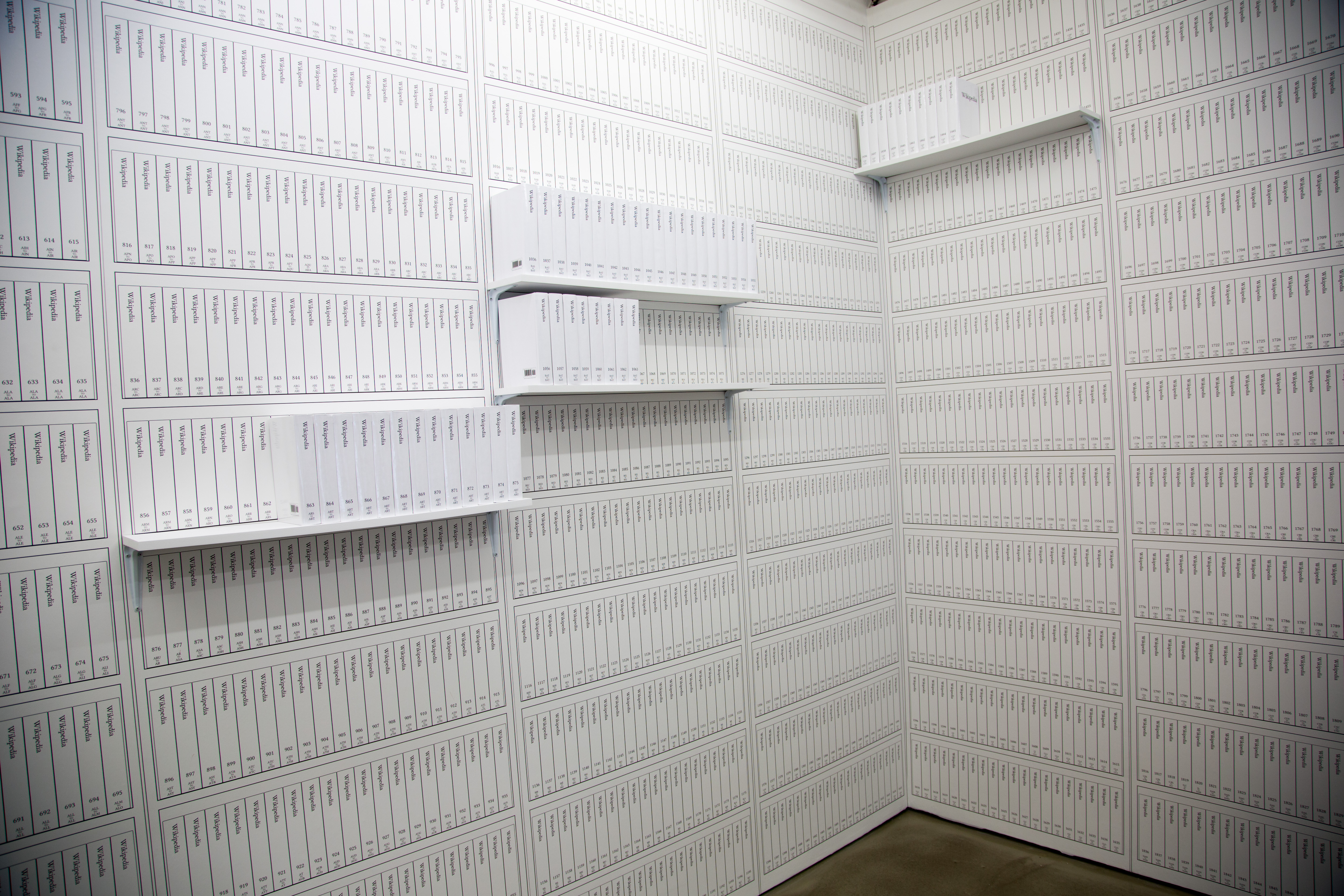 Print Wikipedia by Michael Mandiberg, NYC June 18, 2015 Derivative work CC By-SA 3.0 2015, Wikipedia contributors and Michael Mandiberg User:Theredproject